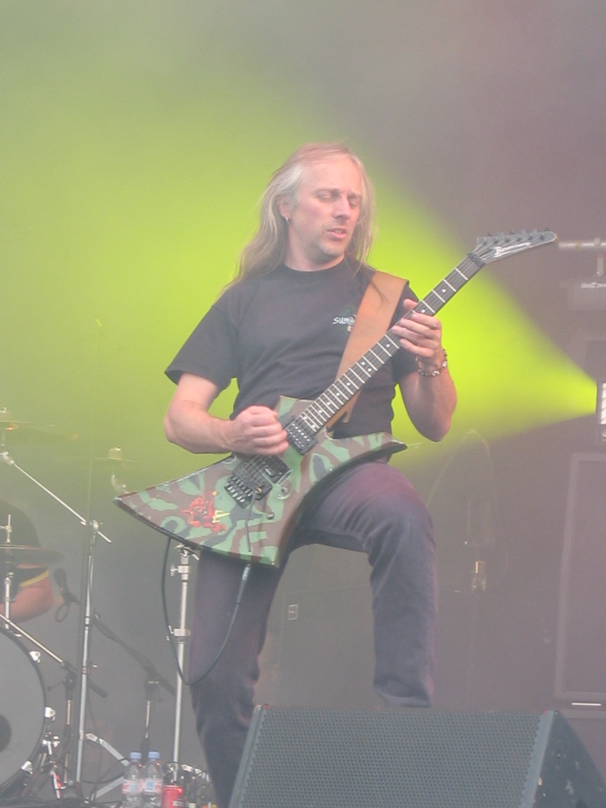 Bernemann, guitarist of Sodom, at Tuska Open Air Metal Festival 2006